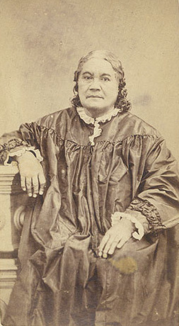 Albumen print of Pomare IV, Queen of Tahiti, by Mrs. S. Hoare, Papeete, Tahiti. Card inscribed front in ink (at bottom) "Pomare IV Reine de Tahiti (Oceanie) 1878-81". Imprinted on reverse with photographer's credit "Mrs. S. Hoare, Photographer, Papeete, Tahiti" and with pencil inscriptions reading "1864 / Ungefahr 51 Jahre alt / Eugene Courret#"